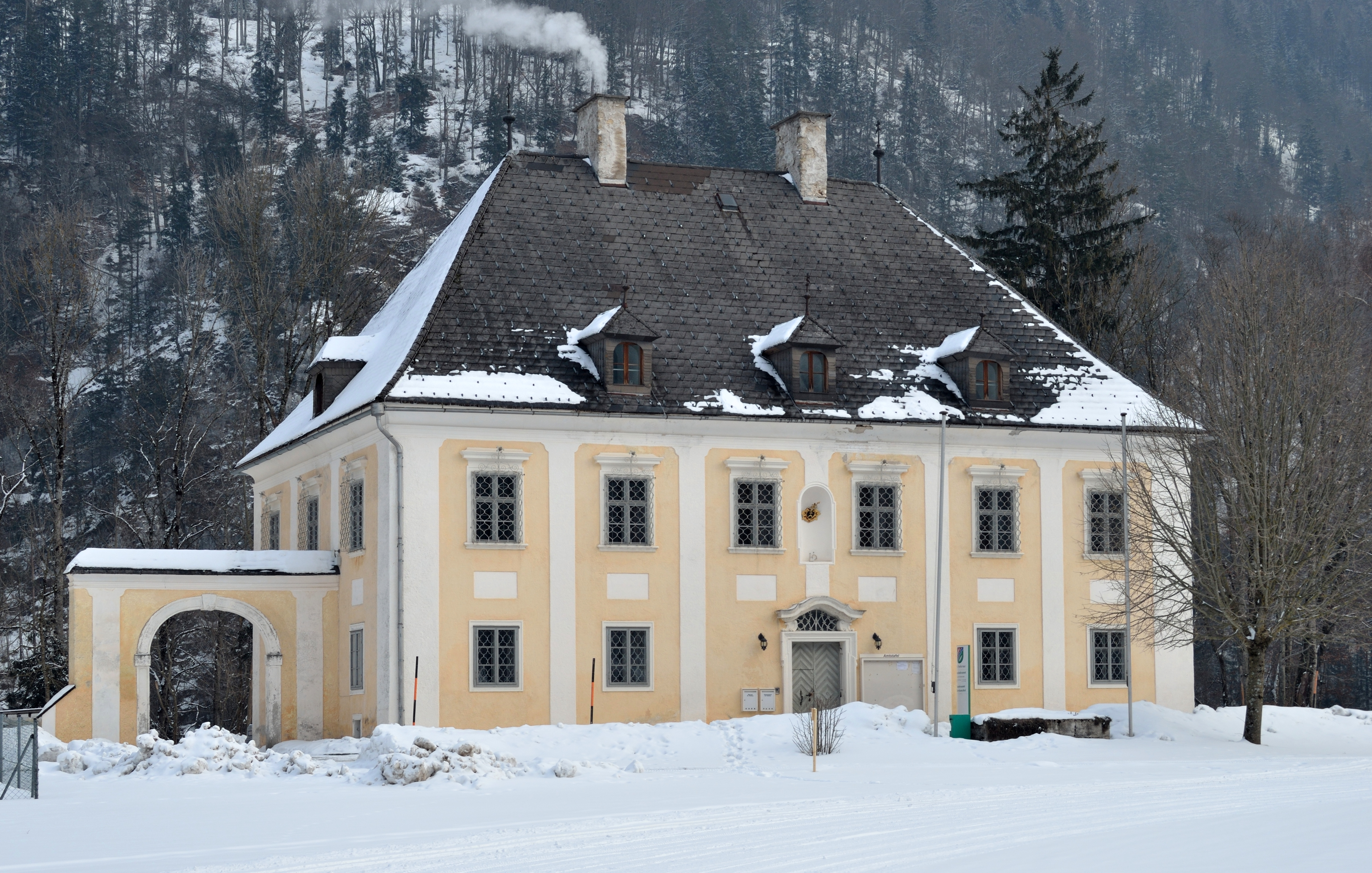 The rectory in St. Pankraz, Upper Austria, is protected as a cultural heritage monument.